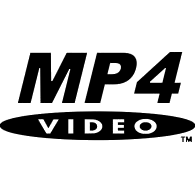 Logo for the MP4 file format.